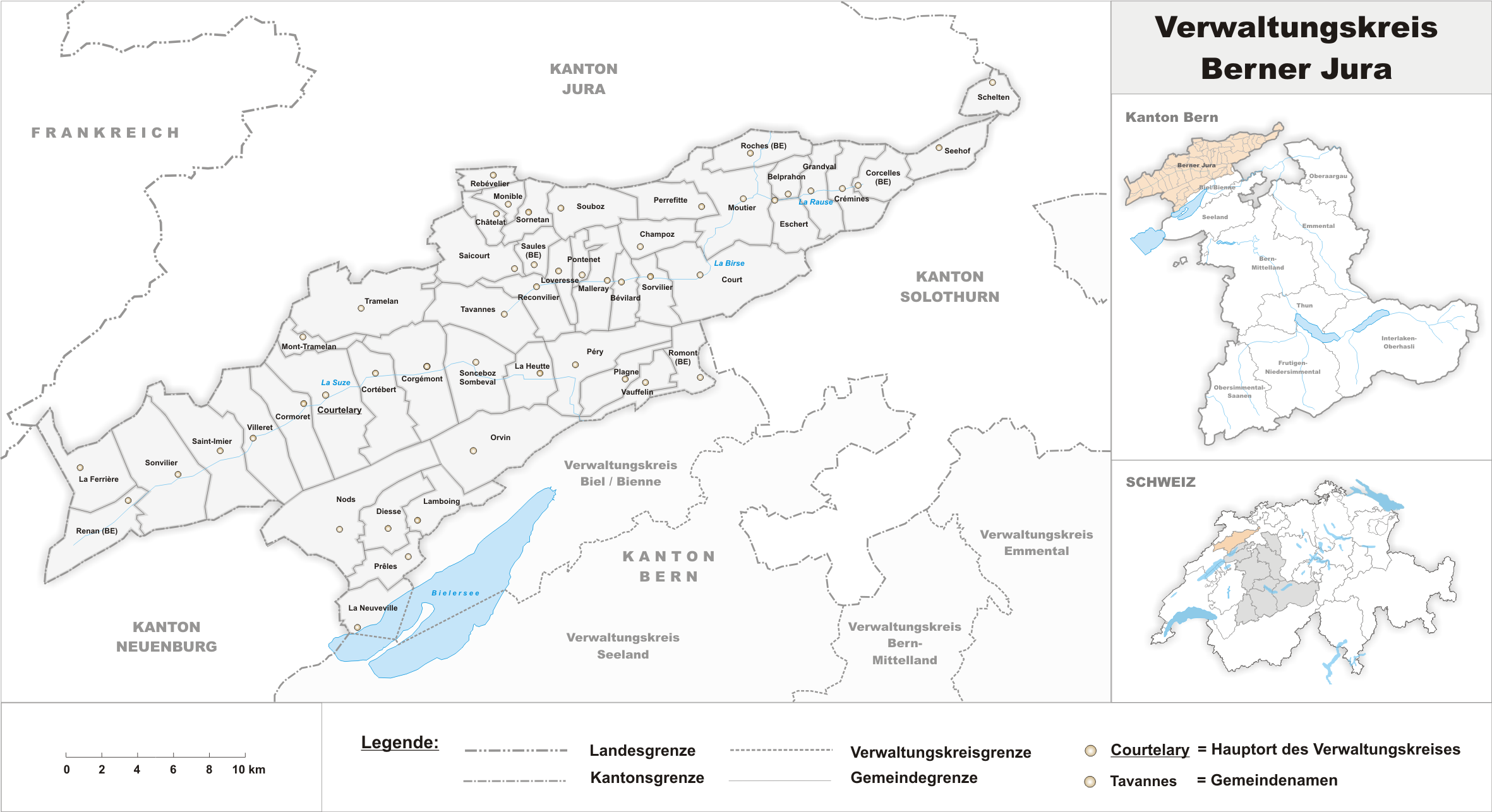 Municipalities in the district of Berner Jura